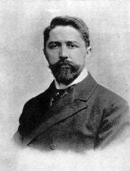 Adolf Hauffen (1863-1930), Educator